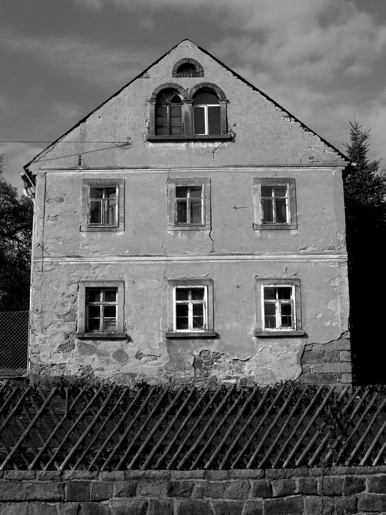 Facade of an old three-sided farmhouse in Saxonian